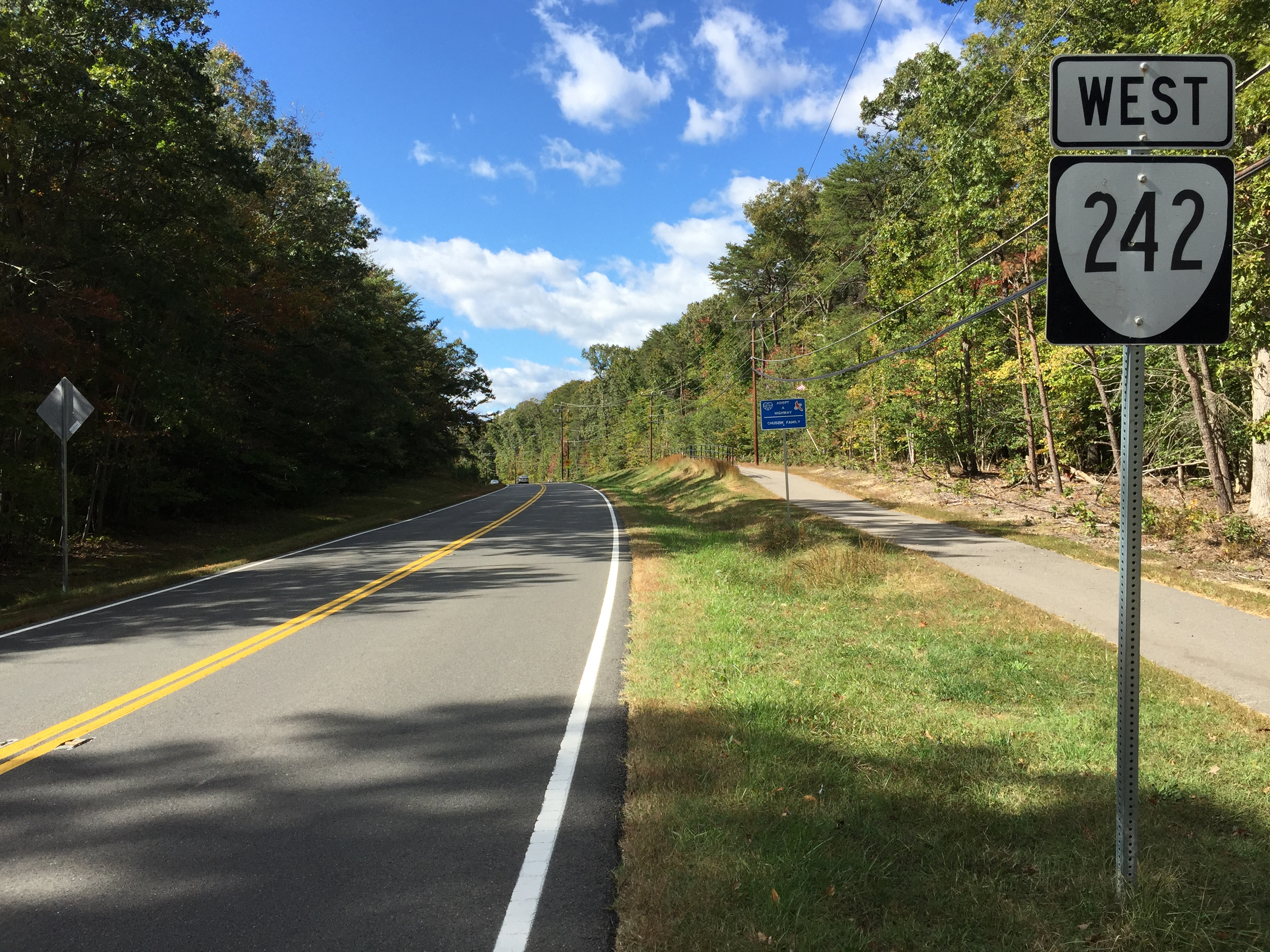 View west along Virginia State Route 242 (Gunston Road) just east of Springfield Drive in Mason Neck, Fairfax County, Virginia